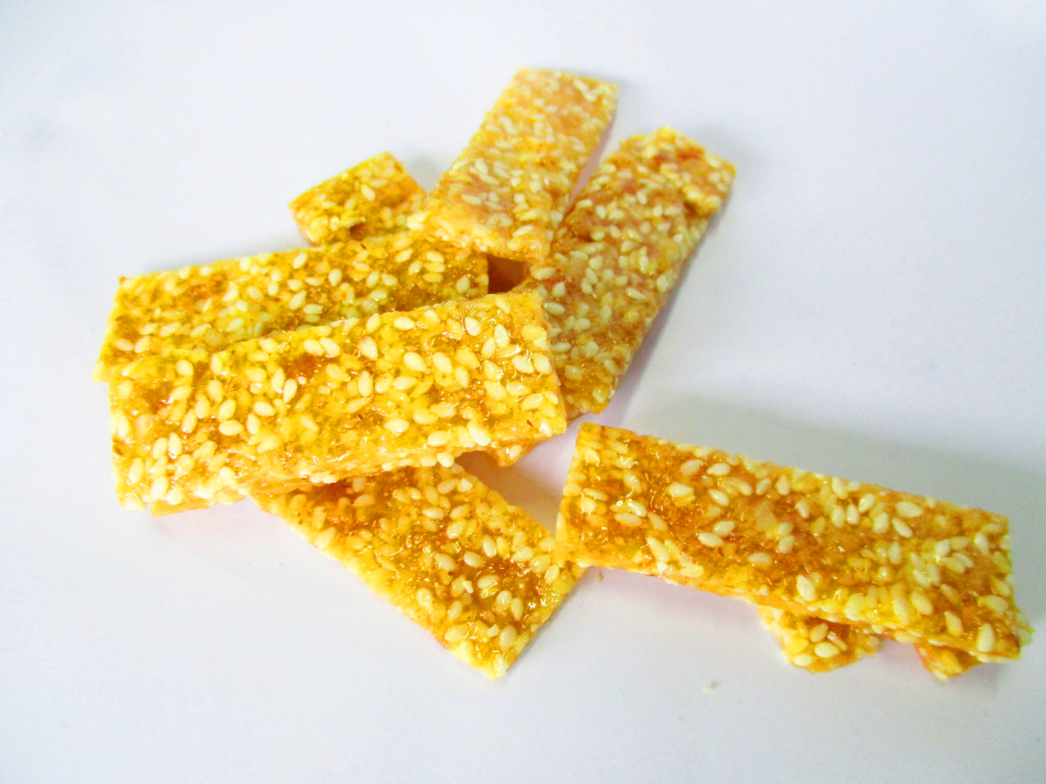 Enting-enting wijèn is made from palm sugar and sesame. We can see this food in Central Java and Special Region of Yogyakarta.